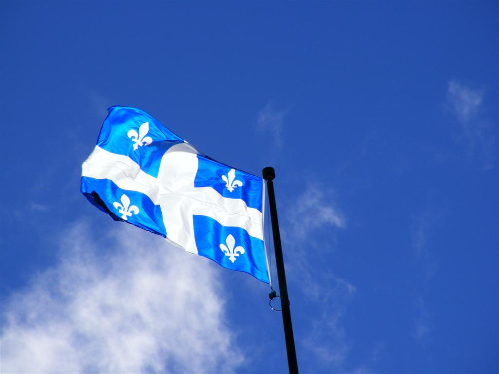 The flag of Quebec